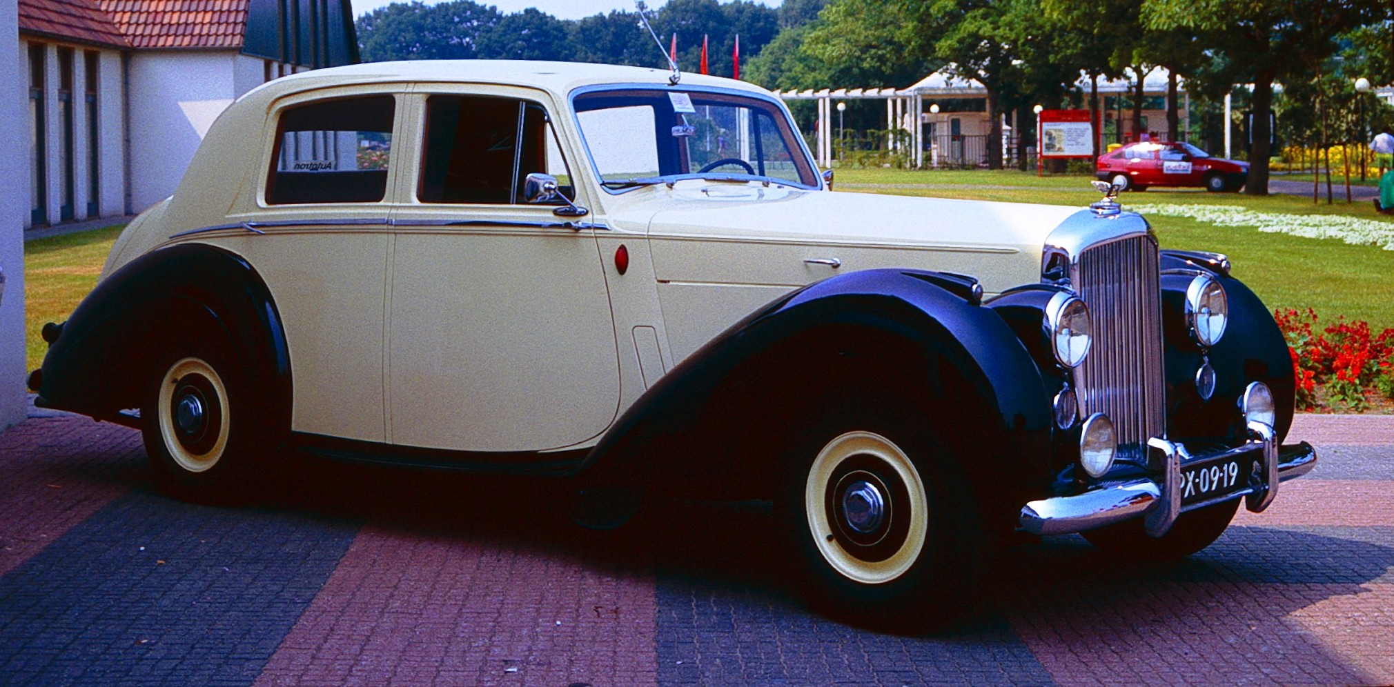 Bentley R-Type at Autotron near den Bosch in 1990. This replaces an image I uploaded several years ago with the wrong name.